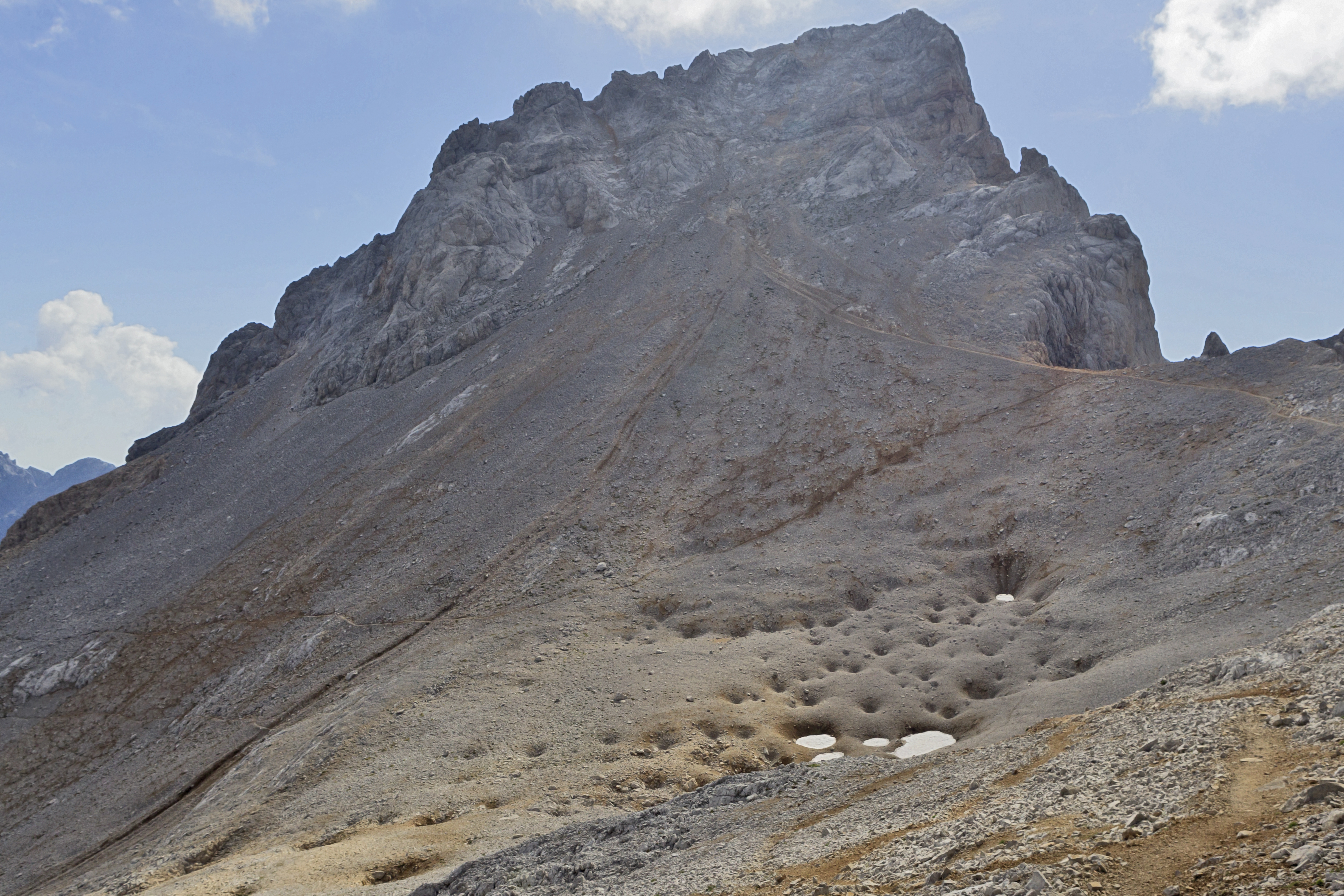 Peña Vieja 2617 m, Picos de Europa